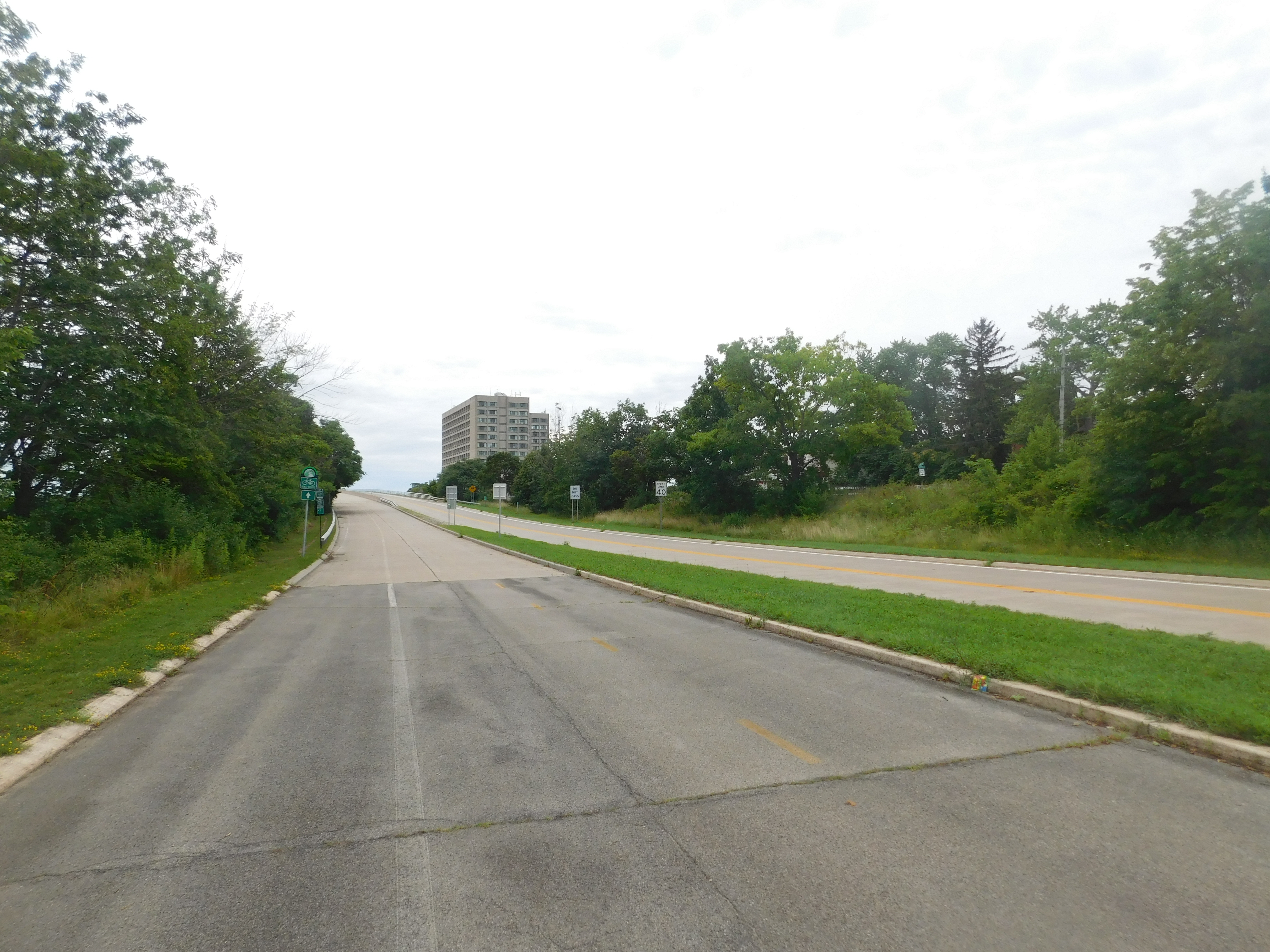 The Niagara Scenic Parkway heading toward the bridge over NY 182 in Niagara Falls, New York.